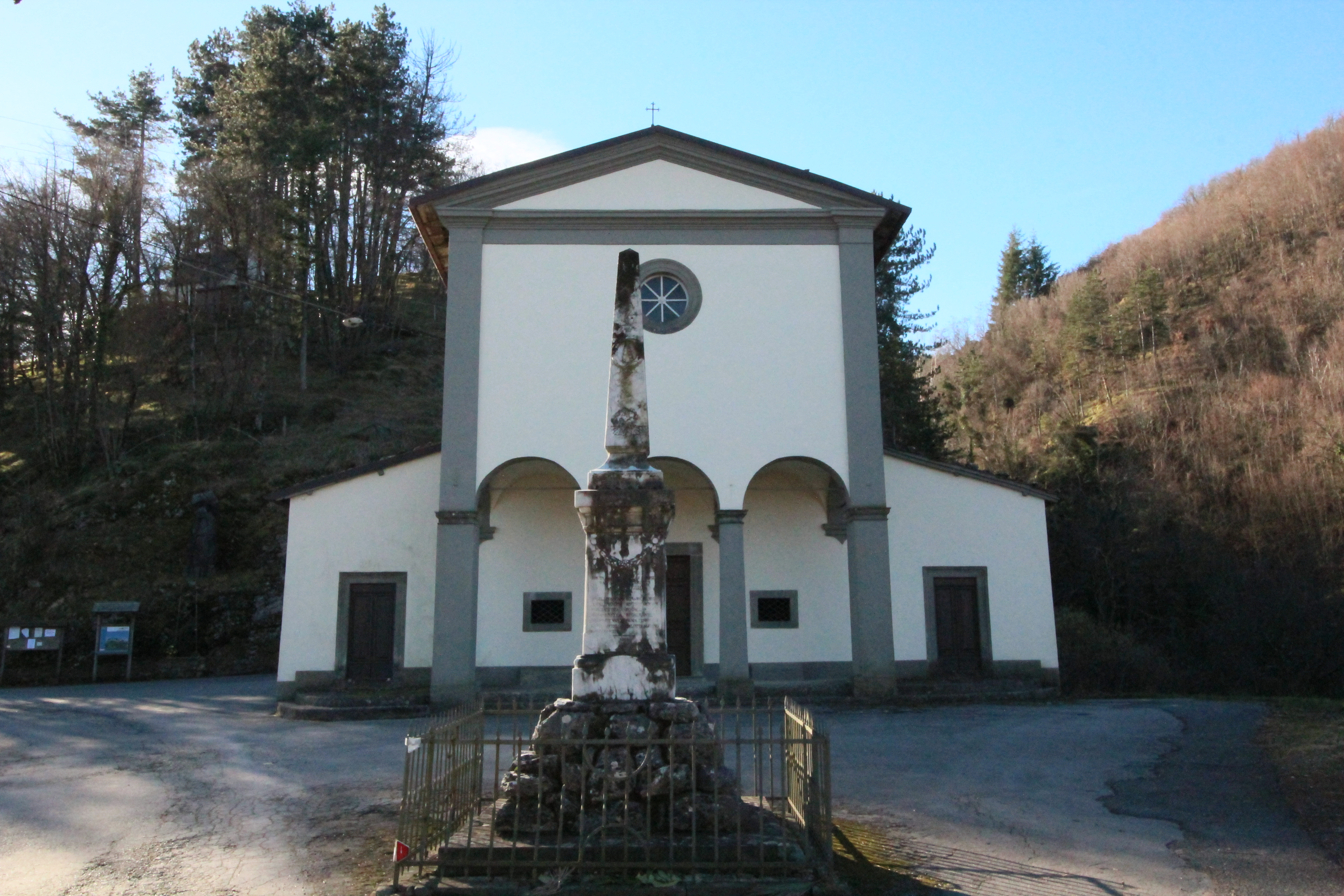 War memorial Monumento ai Caduti di Sassi ed Eglio, in the background the Church San Rocco in Sassi (on the road to Eglio), Molazzana, Garfagnana, Province of Lucca, Tuscany, Italy